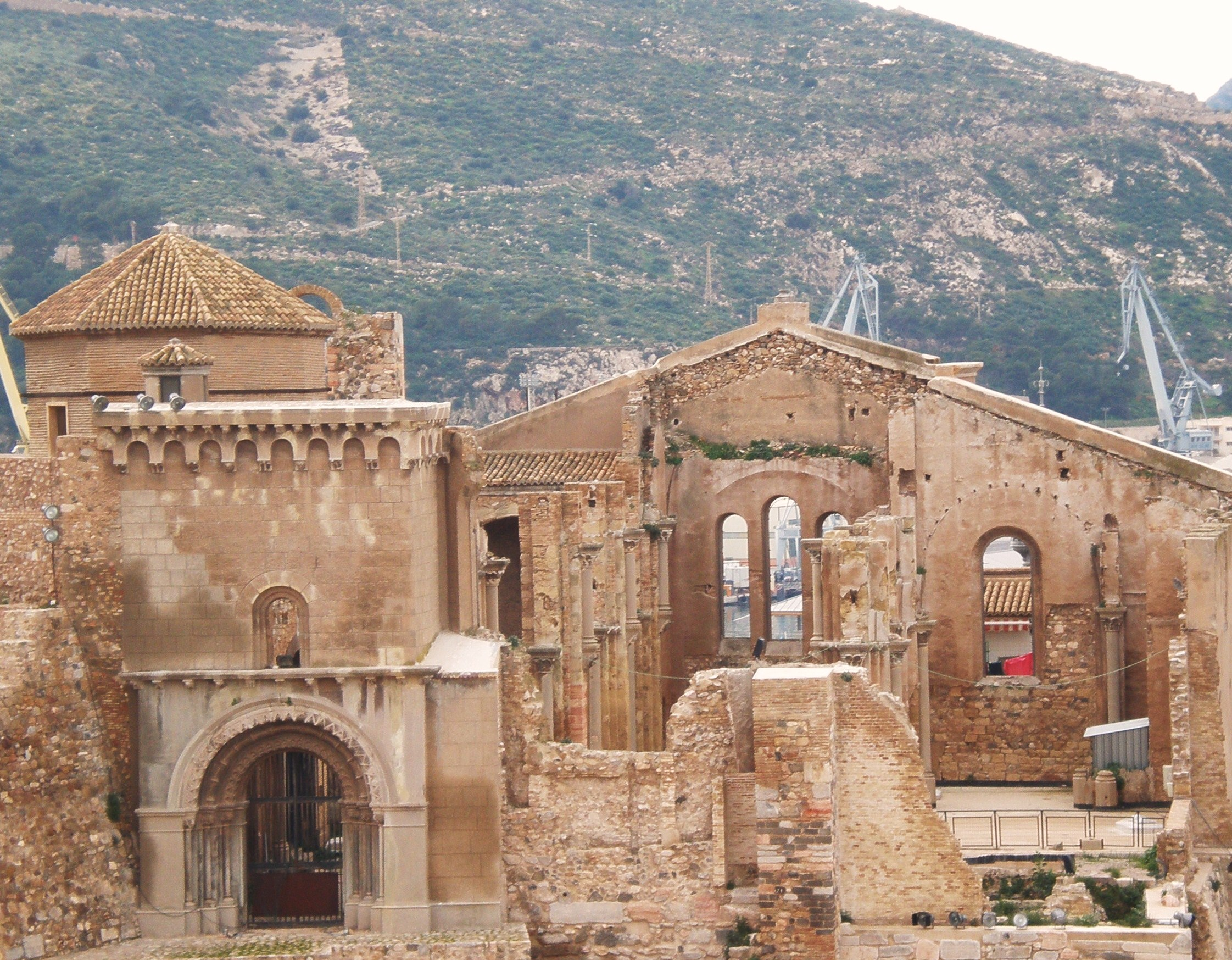 Cathedral remains